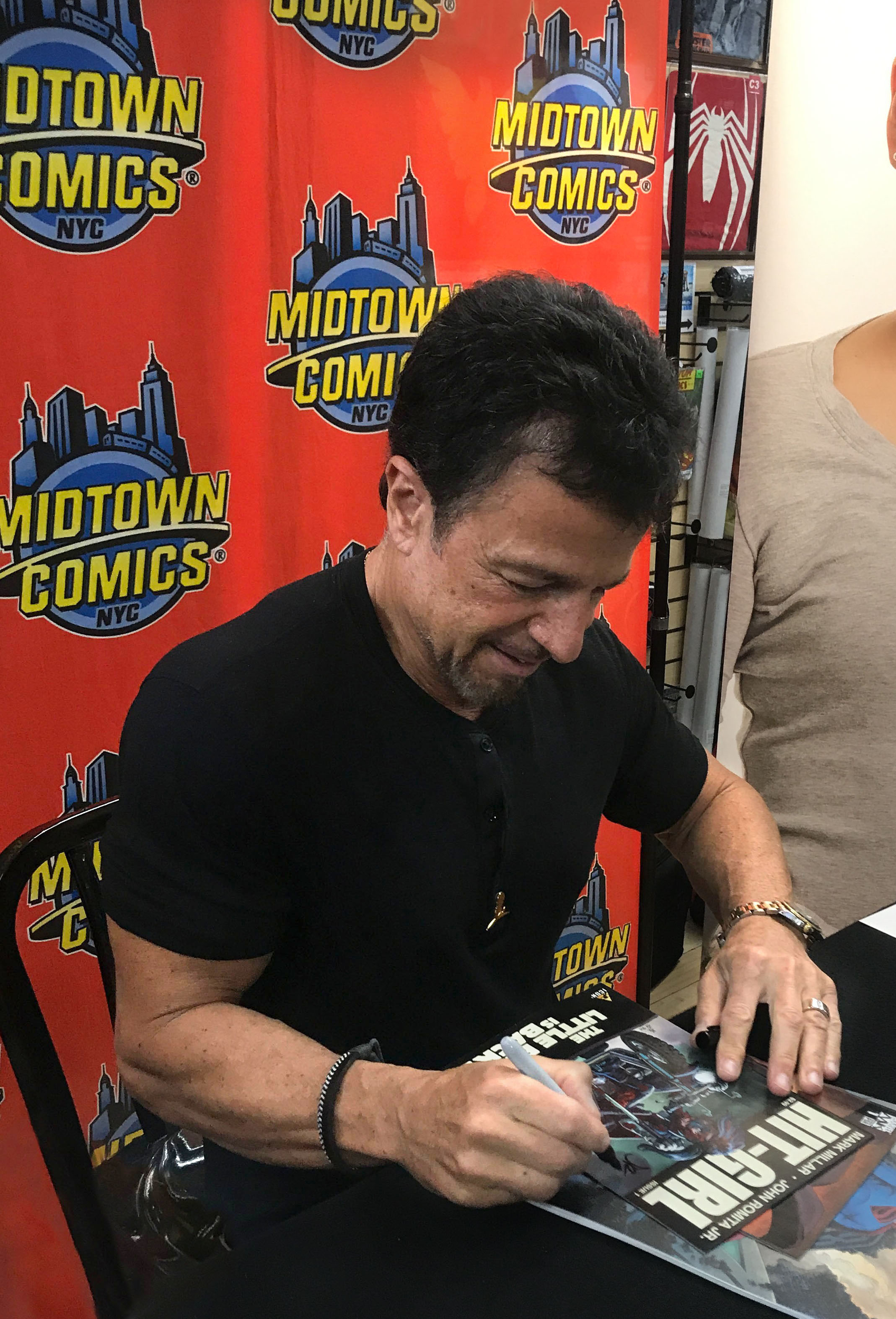 Comics artist John Romita Jr. at a June 20, 2019 book signing for Superman: Year One #1 (August 2019) at Midtown Comics Downtown in Lower Manhattan. In the photo, Romita is signing a copy of Hit-Girl. At right is a poster for St. Jude’s Children’s Research Hospital, to which $2.00 of each signed copy of Superman: Year One was donated, as part of the store’s arrangement with Romita. This photo was created by Luigi Novi. It is not in the public domain, and use of this file outside of the licensing terms is a copyright violation.